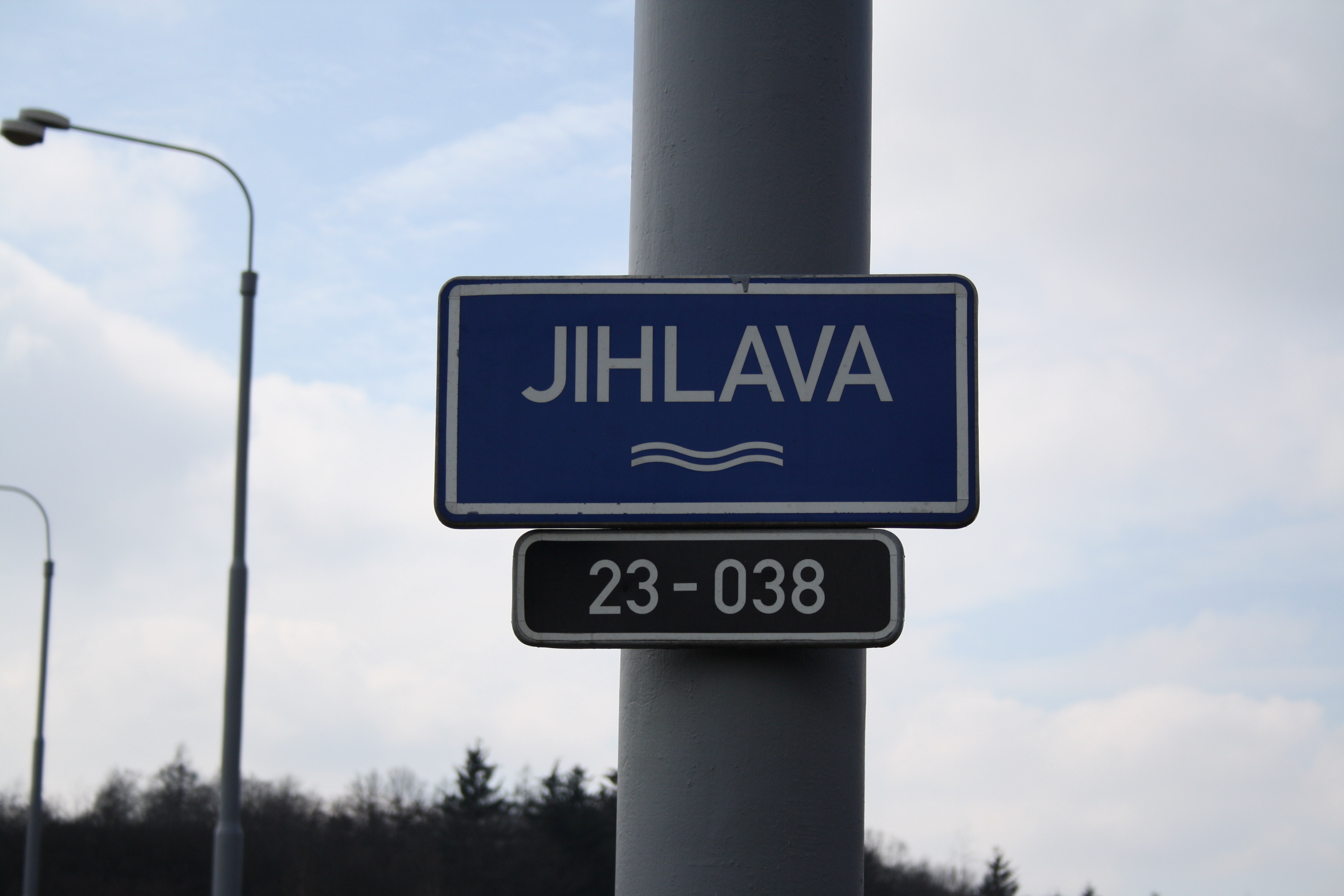 Road sign at bridge over Jihlava river in Třebíč, Czech Republic.